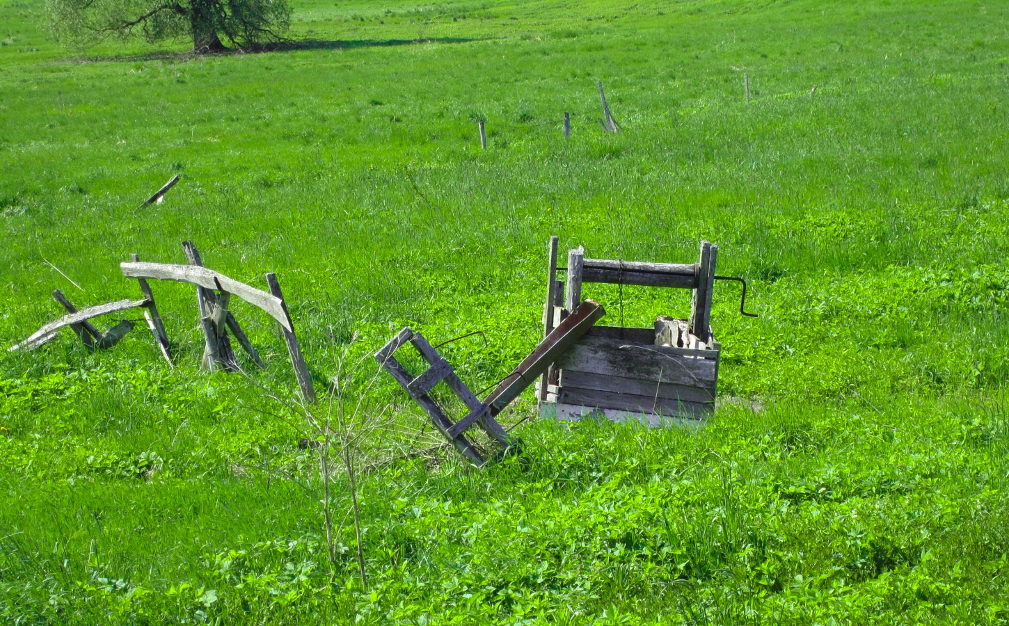 Ruins of pasture well and fence in Tartu County (Estonia). In united Europe, the traditional agriculture of cold Northern countries becomes less and less profitable.